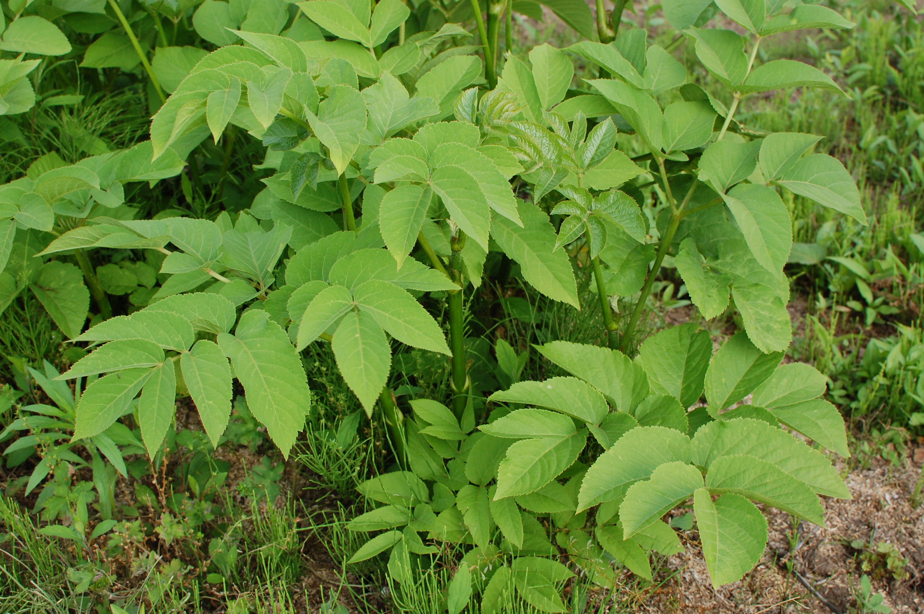 UDO, Aralia cordata